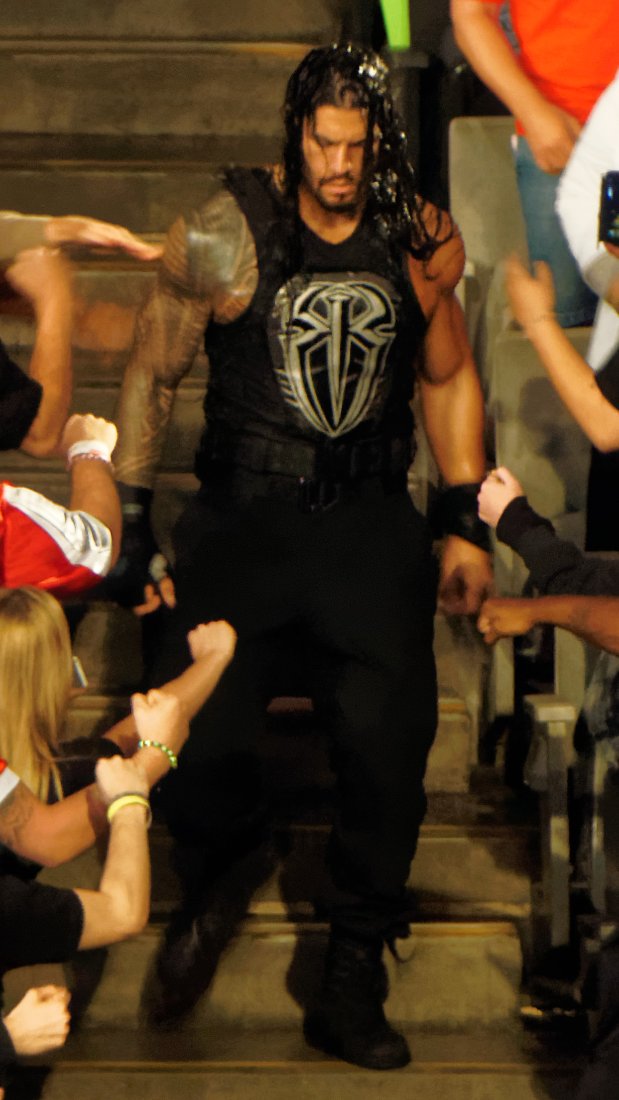 The raw everyboding is waiting for ... The One after Wrestlemania